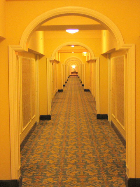 Long Royal York Hallway in Toronto, yellow